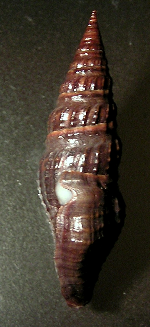 Crassispira incrassata (Sowerby I, 1834) ; a turrid snail from the family Pseudomelatomidae; Panama